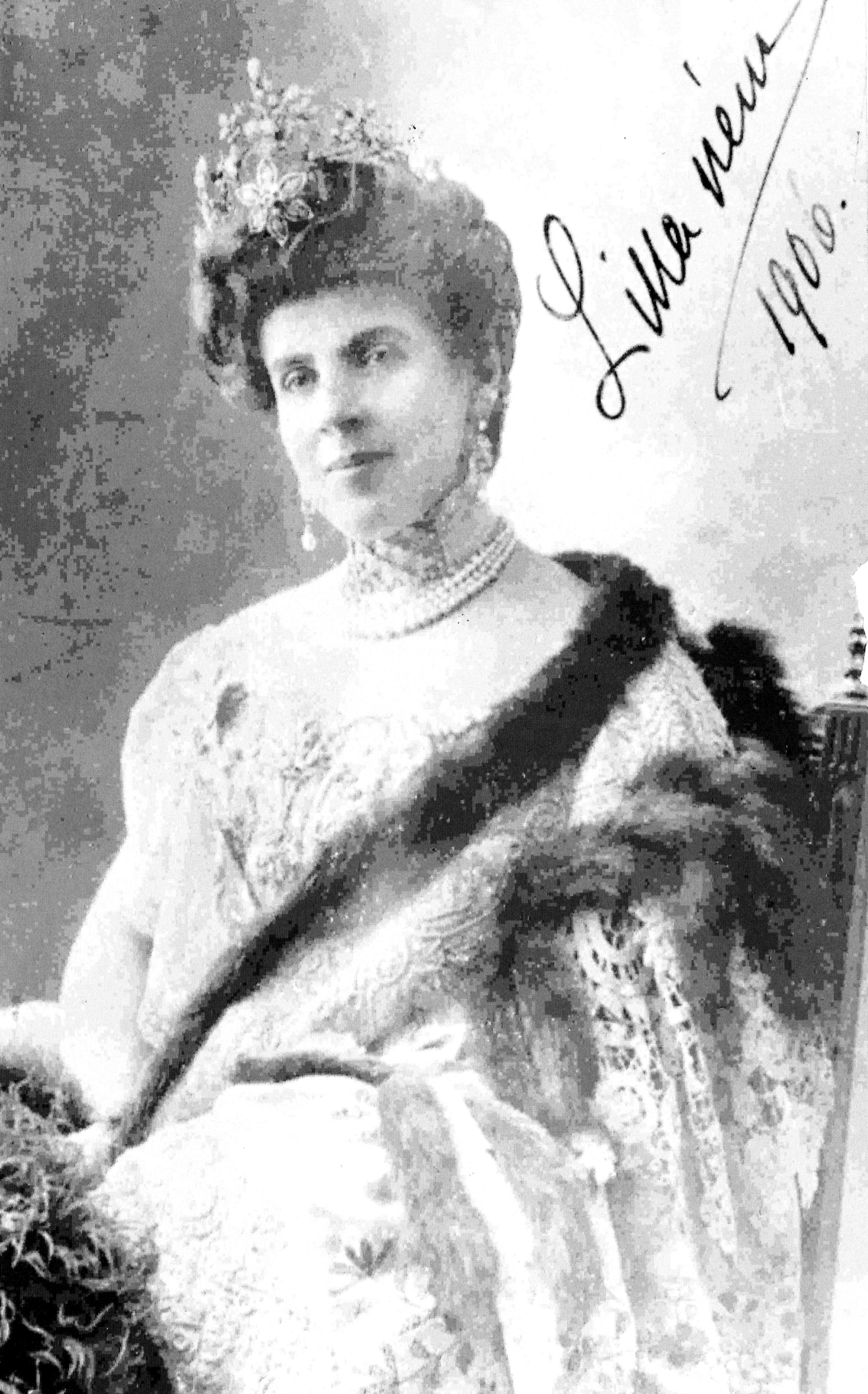 Erzsébet Vay (Lilla) in 1906